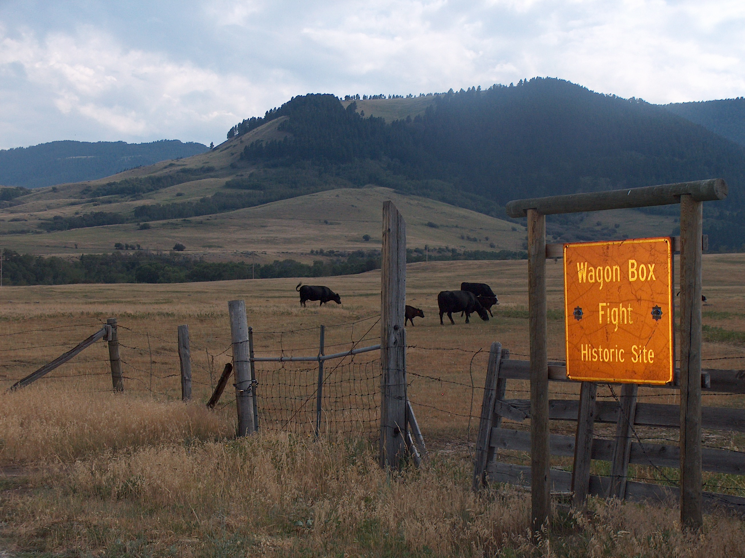 Wagon Box Fight site, near Fort Phil Kearney, between Buffalo and Sheridan, WY (photo: Gilles Coudert, 25 July 2007)